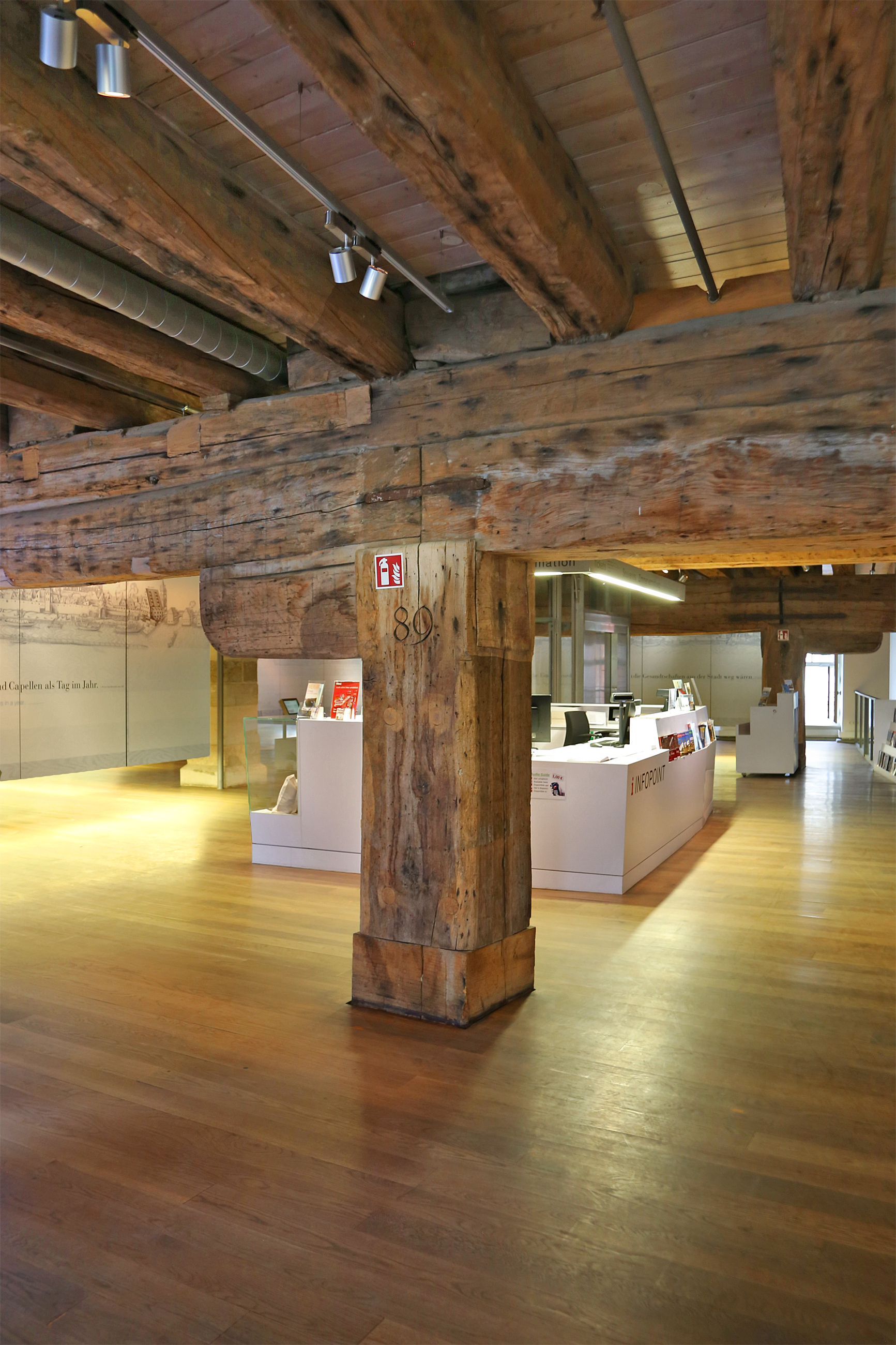 Regensburg (Germany): Visitor Center World Heritage in the building "Salzstadel".